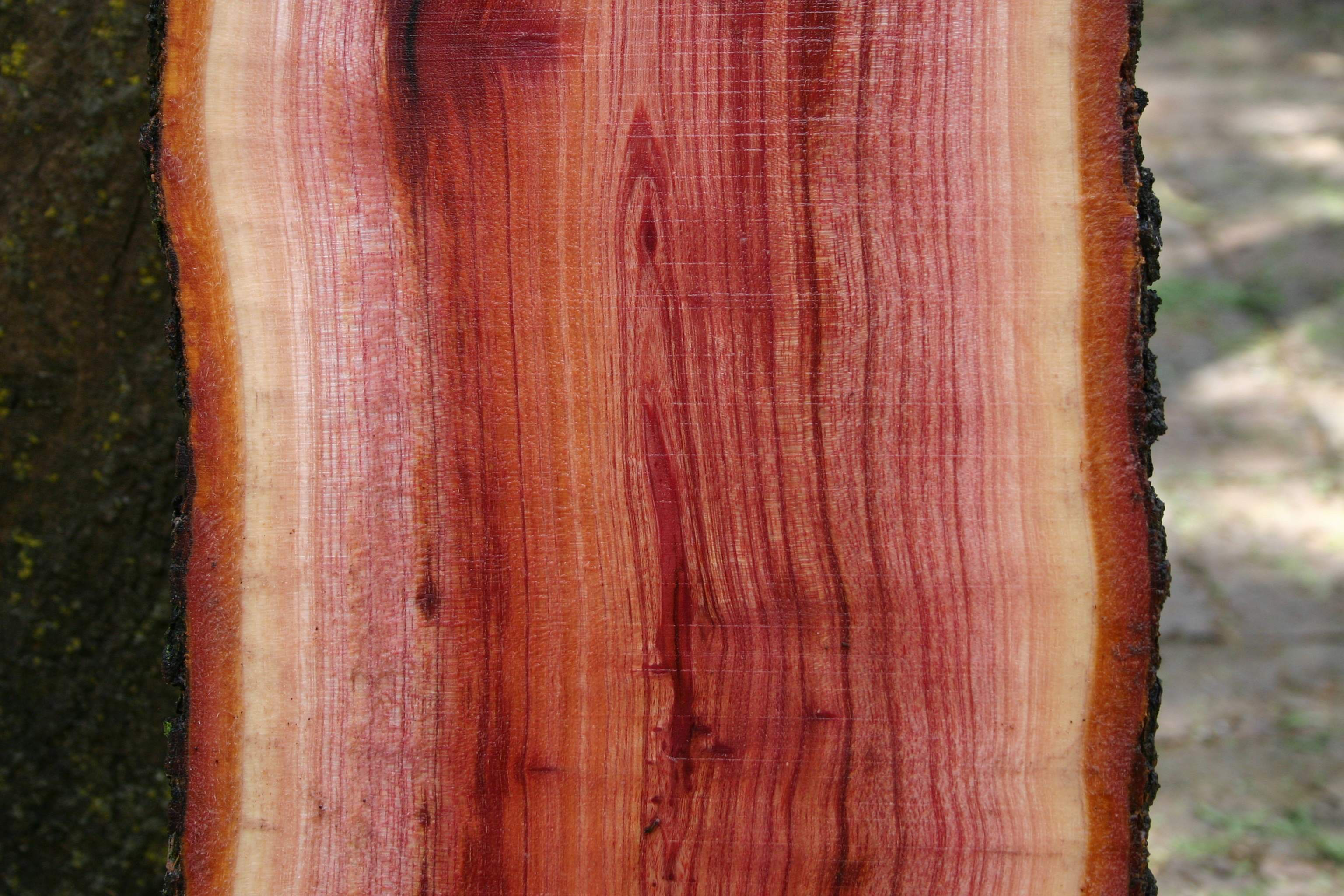 Freshly-cut plank of Cedrela toona, Honeydew, Johannesburg